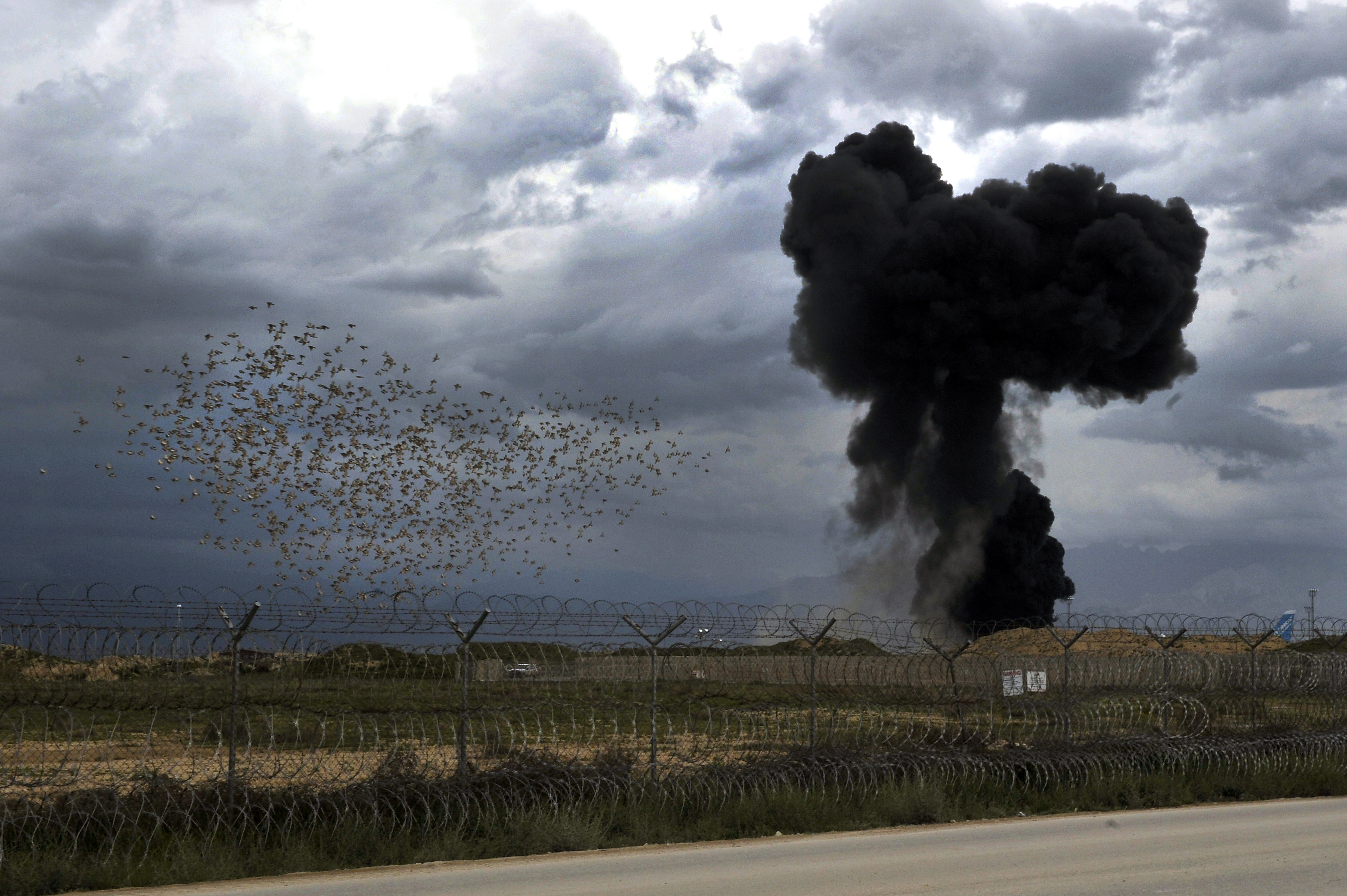 A National Air Cargo Boeing 747 airliner, with a seven-person crew and cargo consisting of five military vehicles, crashed shortly after takeoff from Bagram Air Field, Afghanistan, April 29, 2013. The aircraft erupted into flames near the end of the runway within the perimeter of the airfield, all seven crew members perished in the crash. (U.S. Air Force photo/Senior Airman Chris Willis) Unit: 86th Airlift Wing DVIDS Tags: Airmen; 455th Air Expeditionary Wing; Airfield; Bagram; Public Affairs; Afghanistan; Air Force; 455 AEW; 455 AEW PA; Aviation News